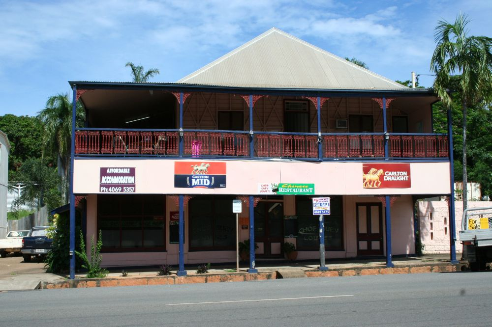 Seagren's Building, later Motor Inn Motel, 2010